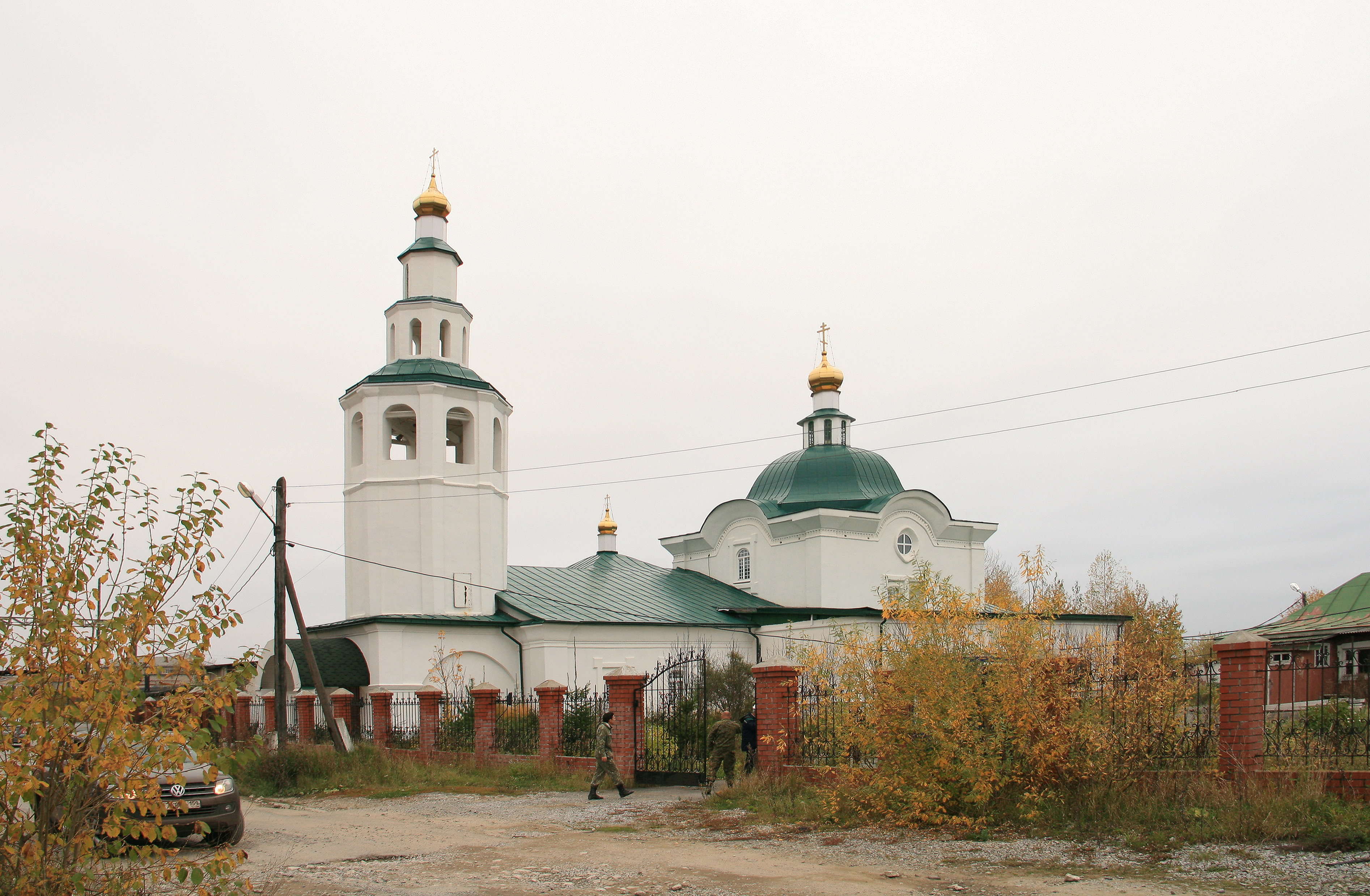 Church of the Decapitation of Saint John, 1757, Bereznki, Perm krai, Russia